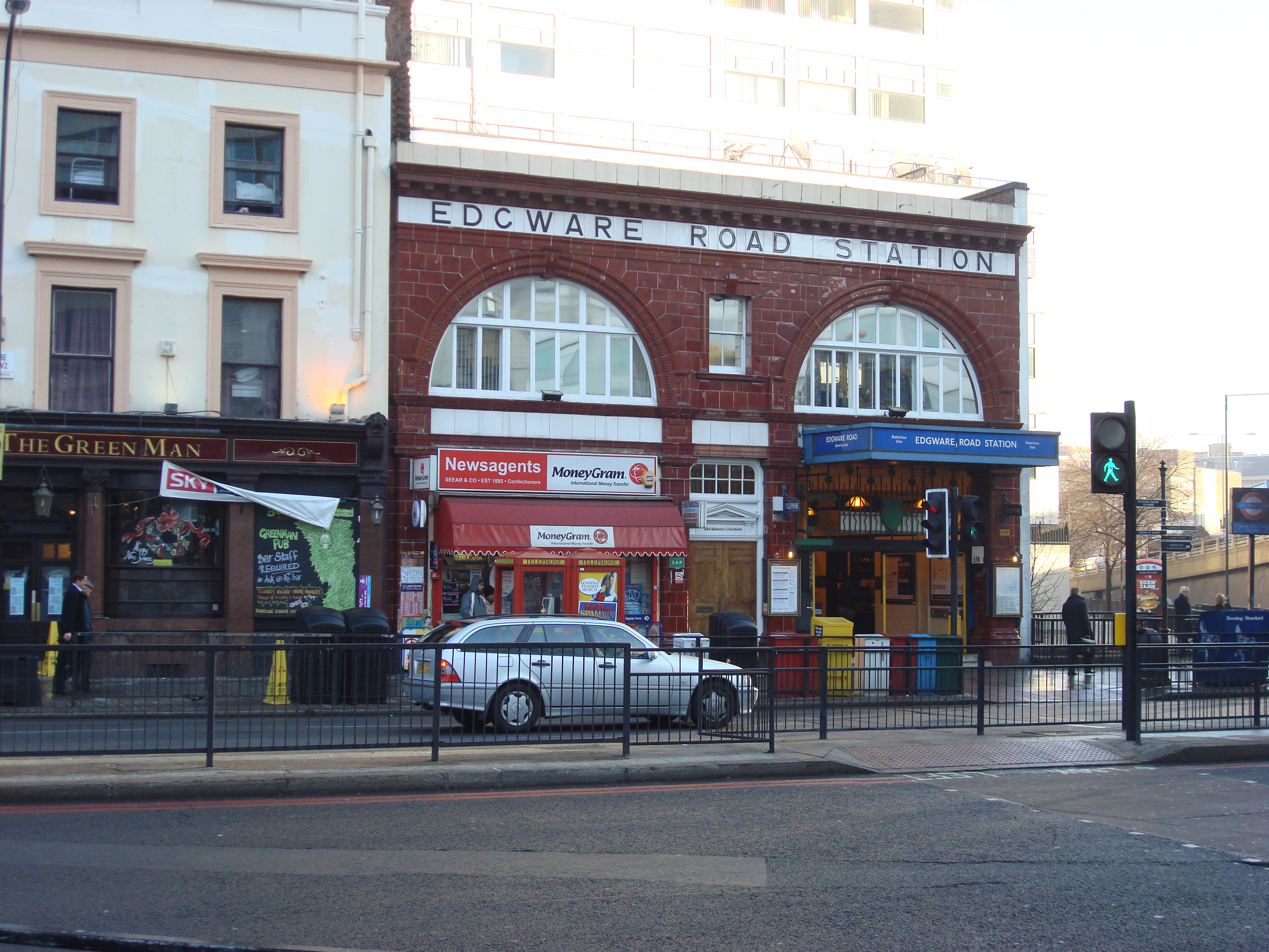 Edgware Road tube station Bakerloo Line